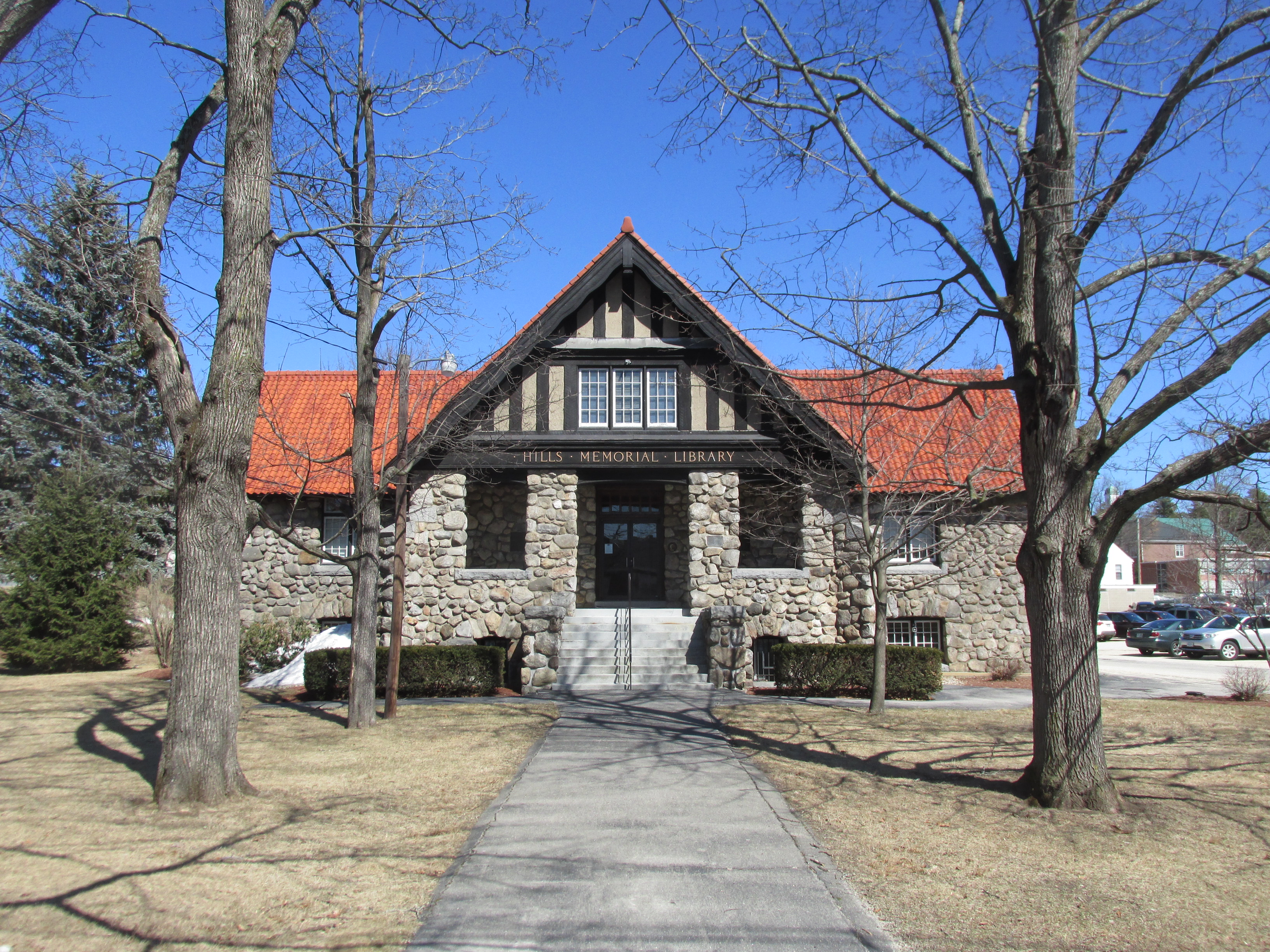 Hills Memorial Library, Hudson New Hampshire